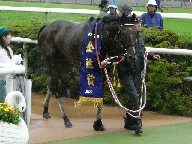 Rulership20110528(2)